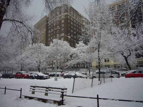 370 Riverside Drive in winter, looking east from the nearby park